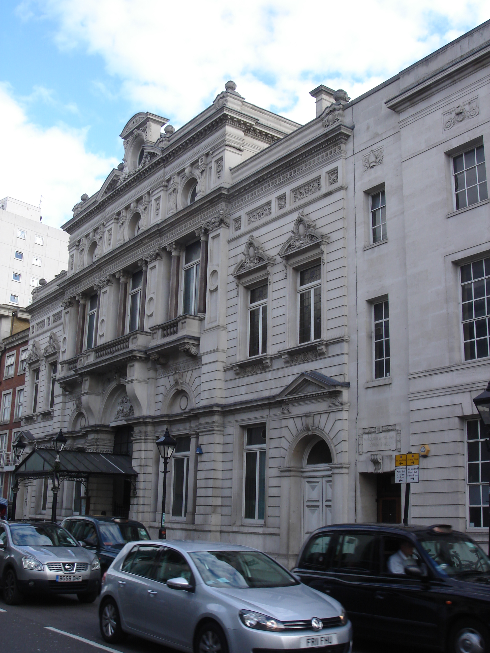 Fulham Town Hall (original Building and 1904-5 Extension)